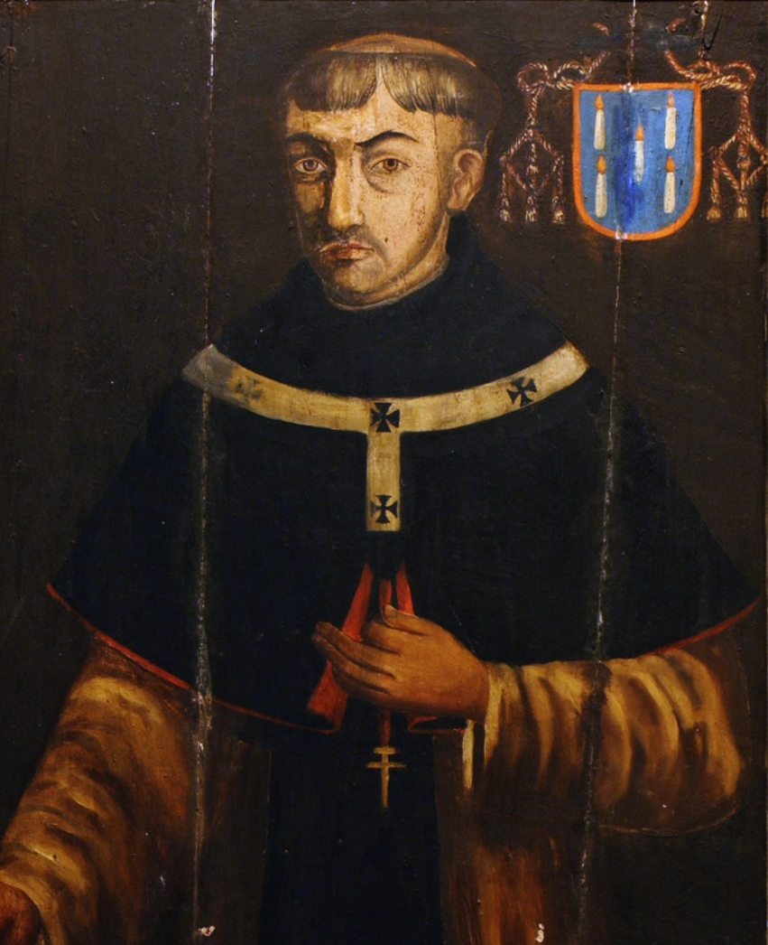 António Brandão (1620-1678), Archbishop of Goa and Governor of Portuguese India